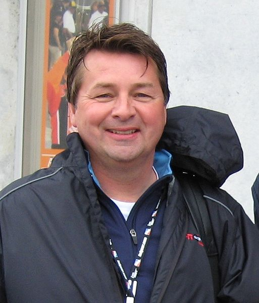 Scott Goodyear at the Indianapolis Motor Speedway for the second day of qualifications for the 2008 Indianapolis 500.